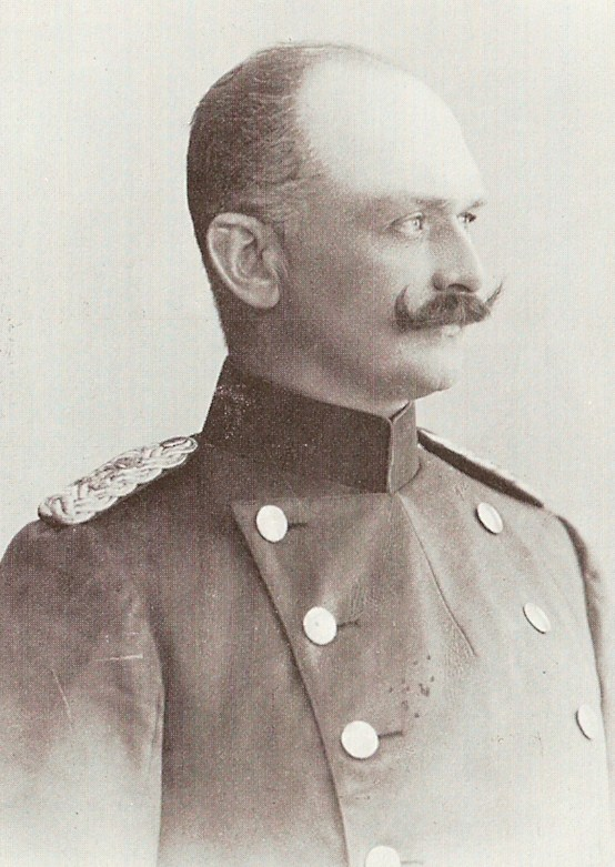 Hans von Watzdorf (1857-1931), saxonian Lieutenant General